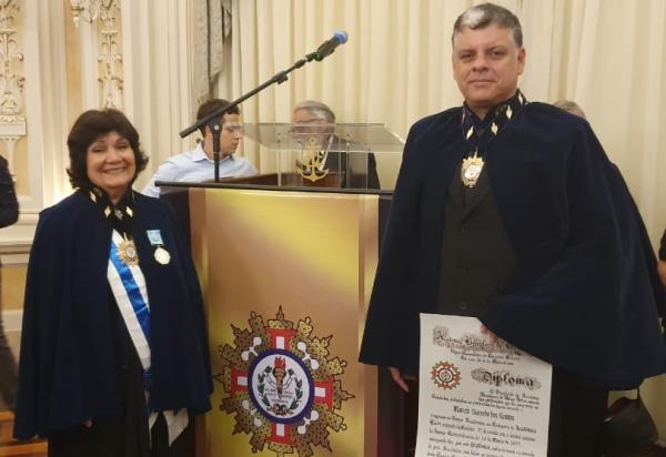 Marcelo Azeva Vera Gonzalez Brazilian Academy of Fine Arts